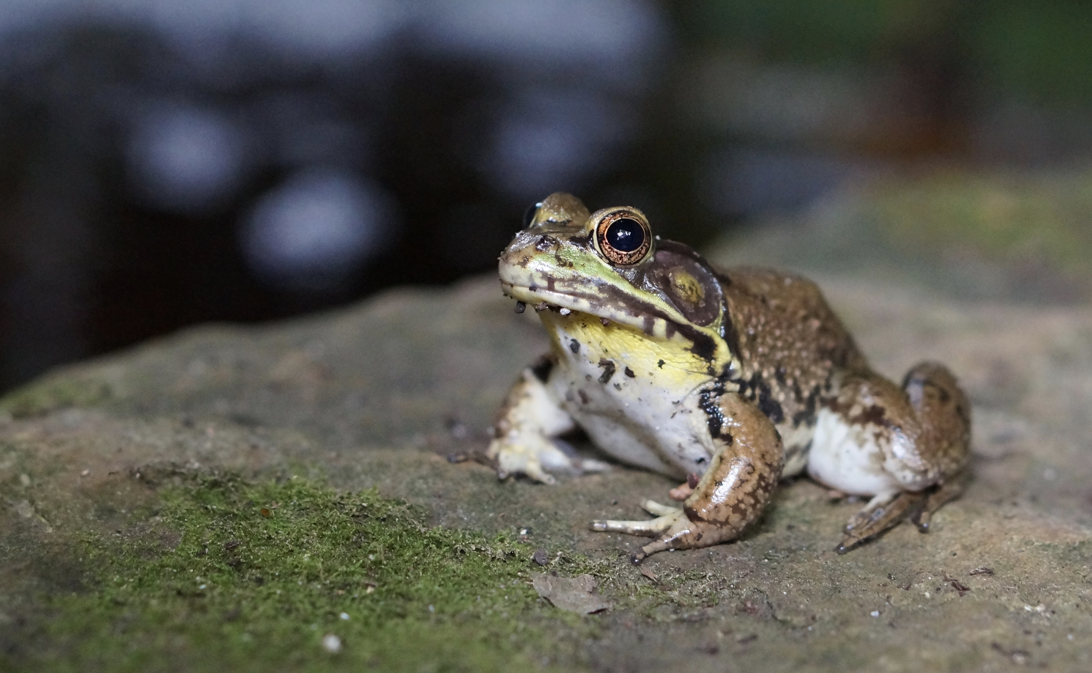 Male bullfrog with characteristic yellow throat and tympani larger than eyes.